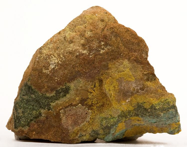 Zippeite Locality: Delta Mine (Hidden Splendor), San Rafael District (San Rafael Swell), Emery County, Utah, USA (Locality at ) Size: 6.4 x 5.1 x 4.5 cm. The yellow patches you see here are probably zippeite (darker yellow) and uraninite (uranium oxide- lighter yellow) - this specimen came from the Delta Mine in Utah, which was mined almost exclusively for uranium; this specimen went to the well-known collection of the School of Mines in Paris. The label has the significant mineral misidentified (or the name changed over 100 years of specimen terminology changes, rather), though it does mention "one new sulfate or yellow uranium?" which we presume to be the zippeite (potassium uranium sulfate) although have not analyzed to confirm 100%. Yes, it is basically yellow uranium species, probably several, and is an interesting historic piece.